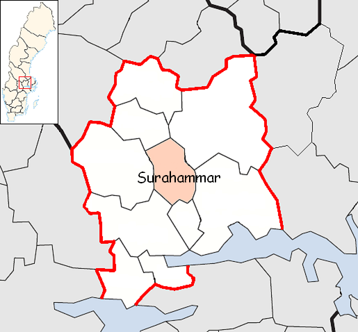 Surahammar Municipality in Västmanland County, Sweden, after Heby Municipality was transferred to Uppsala County